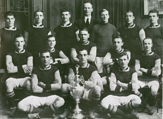 The team photograph of the Championship-winning Burnley F.C. side in the 1920-21 season. Image found in the Burnley Express and in The Clarets Chronicles (ISBN 978-0-9557468-0-2). Both give no details of the author's and photographer's identity, so it must be presumed to be unknown. This, and the age of the image mean it is in the PD per the template shown.